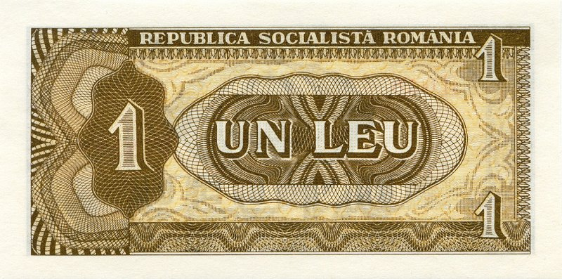 1 Romanian leu from 1966 - reverse